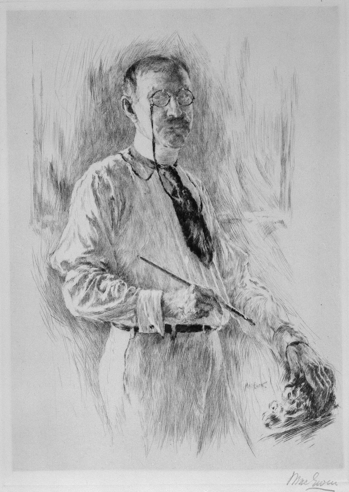 Selfportrait